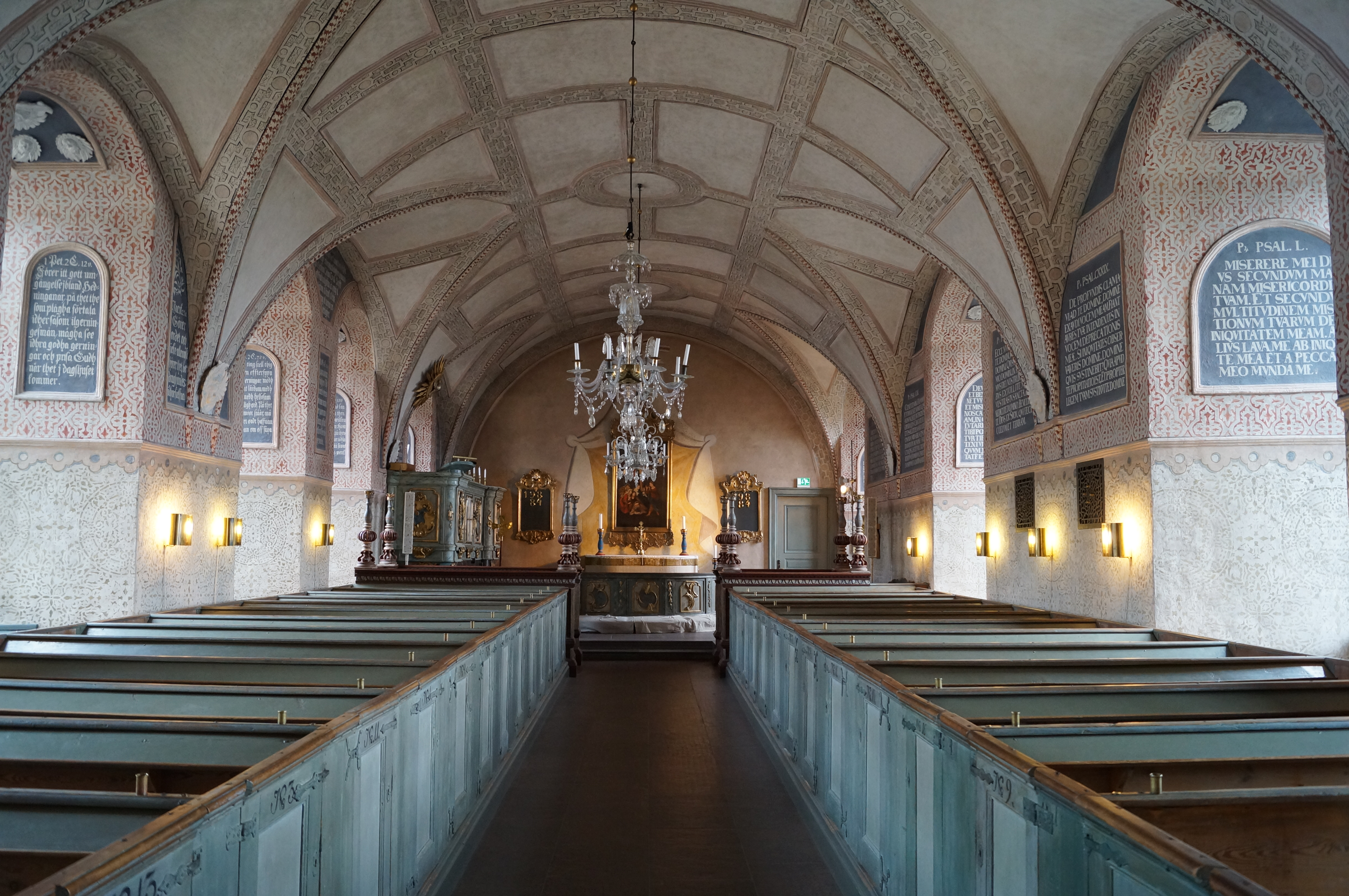 The church in Kalmar castle.